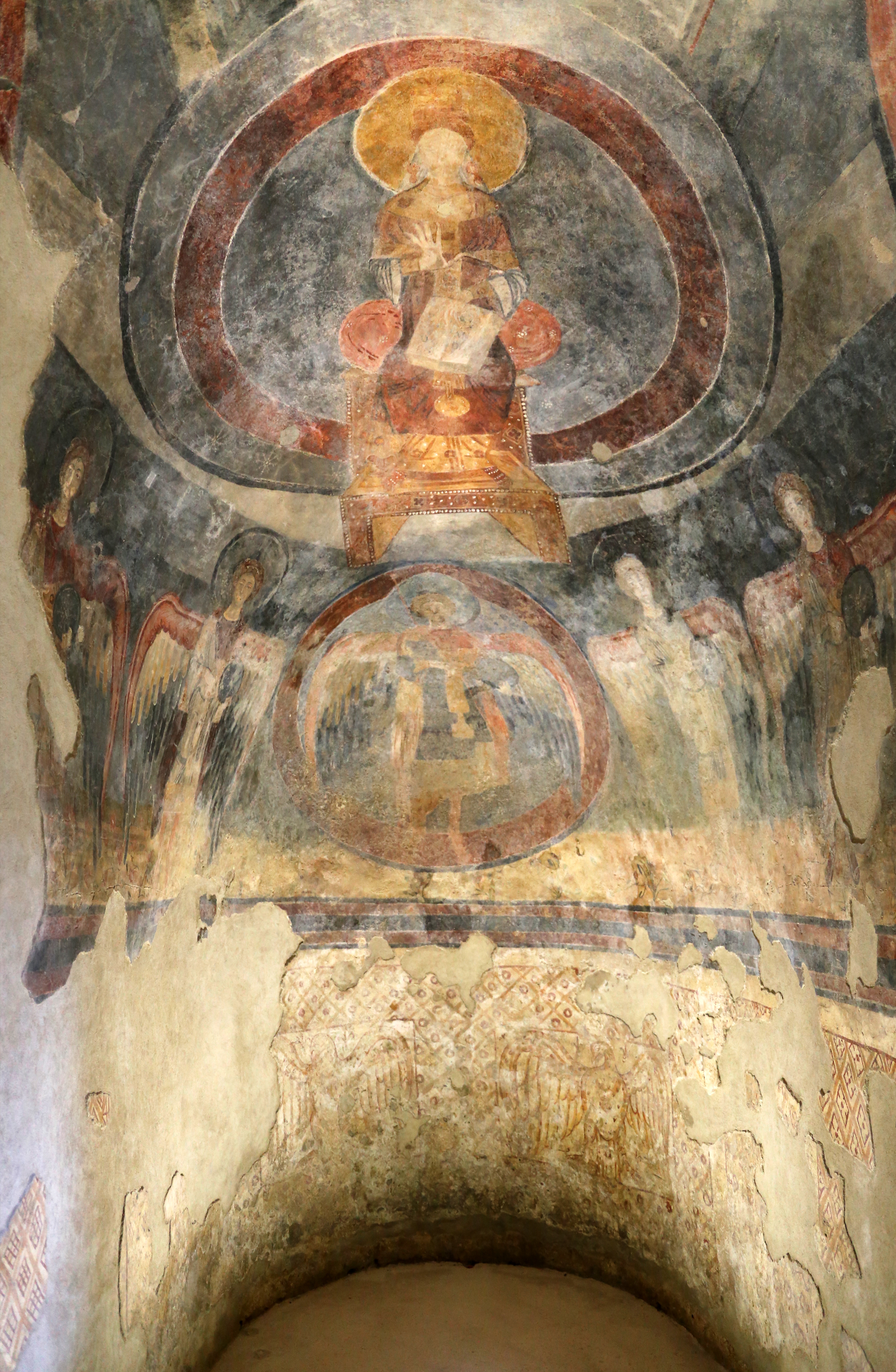 Fresco at the Epifanio Crypt. The upper part depicts the Virgin Mary in Heaven, below represents Christ as an angel in the centre flanked by the four archangels. According to La cripta di Epifanio a S. Vincenzo al Volturno, the second and fourth figures (from left to right) have been identified with Raphael and Michael respectively; the first figure possibly depicts Uriel according to Inchiesta su Uriele: l'Arcangelo scomparso (p. 273), the third one represents Gabriel.